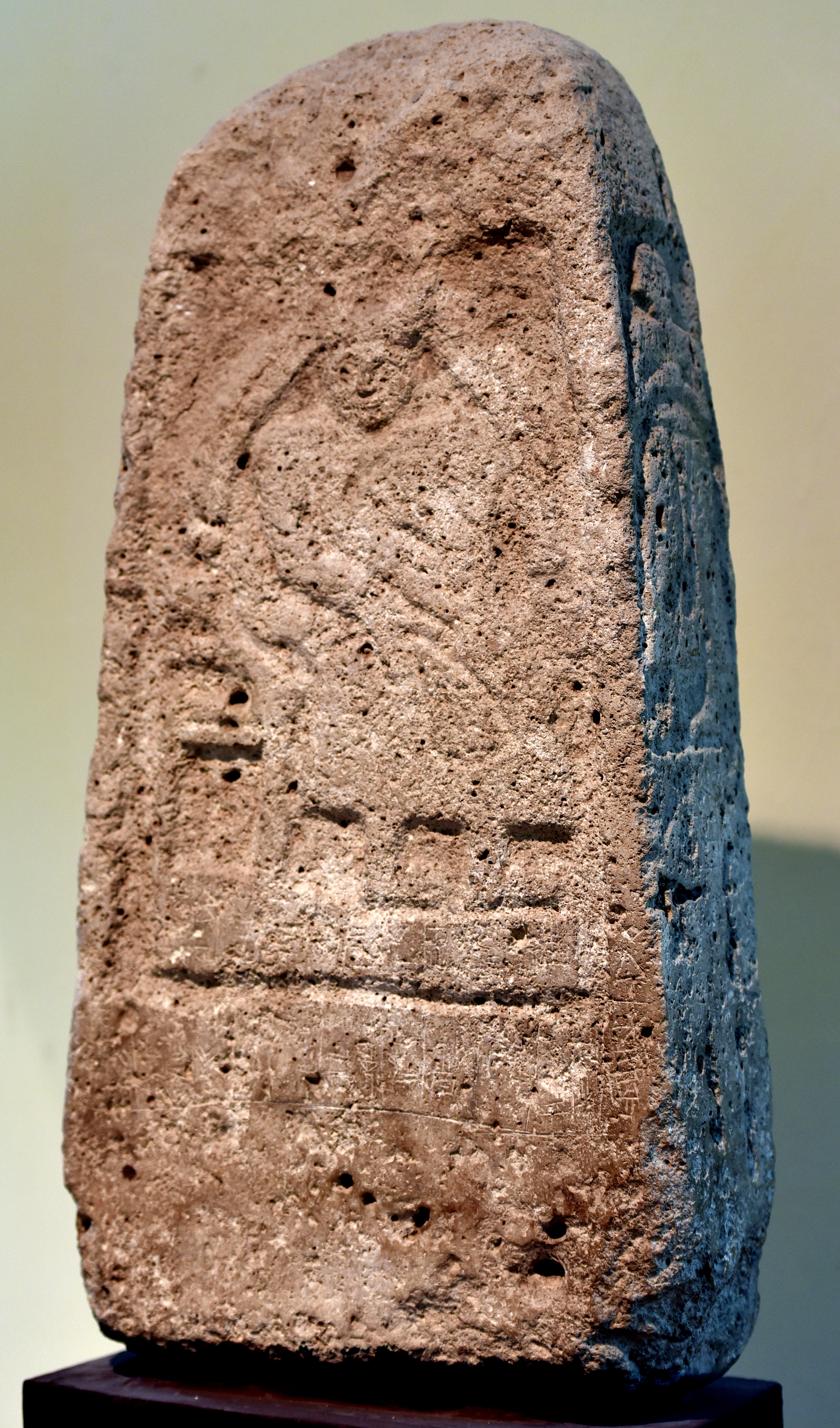 This large white limestone stele (the Iraq Museum says obelisk) was found in Lagash, southern Mesopotamia, in modern-day Iraq. Circa 2550 - 2500 BCE. All of the 4 aspects of the obelisk were carved, in reliefs, with different scenes. The frontal surface depicts the Sumerian goddess Nisaba seated, holding what appears to be a palm branch. Ur-Nanshe and his family were depicted in other aspects, and many cuneiform inscriptions can also be seen. Ur-Nanshe was the first king of the First Dynasty of Lagash and reigned from 2550 to 2500 BCE. It is now on display in the Sumerian Gallery of the Iraq Museum in Baghdad, Republic of Iraq.